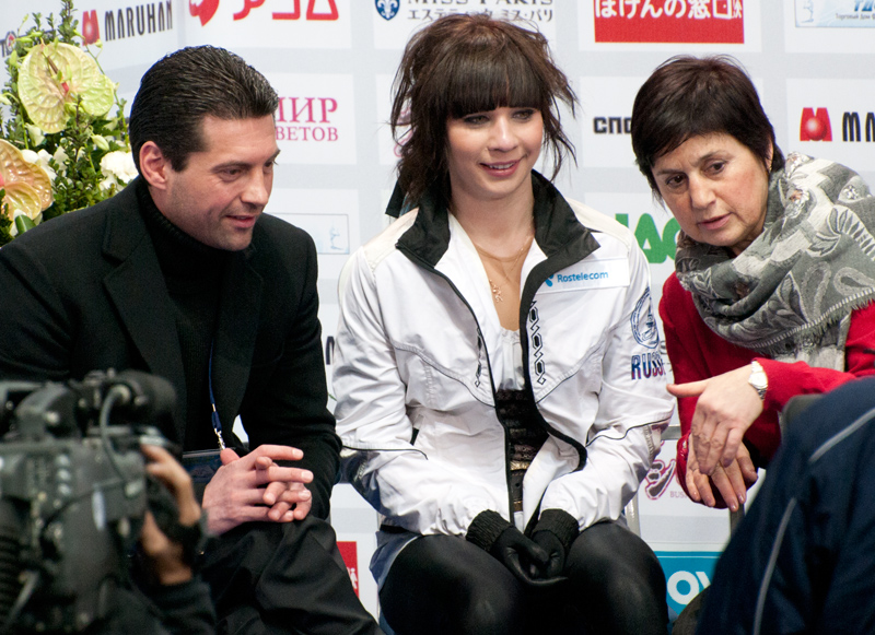 2011 Cup of Russia, short program.